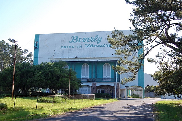 Rear view of Beverly Drive-In Theatre, Hattiesburg, Forrest County, Mississippi, USA